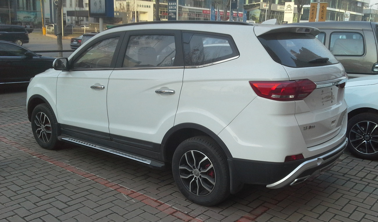 Lifan Maiwei photographed in Shenyang, Liaoning province, China.